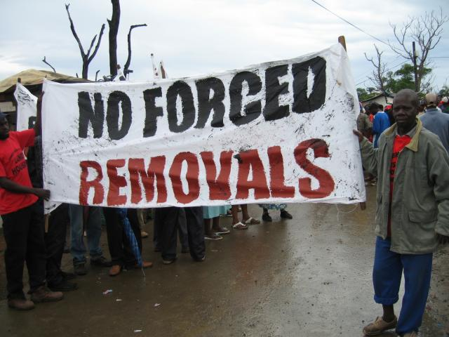 A protest by the Durban shack dwellers' movement Abahlali baseMjondolo own work. copy left.